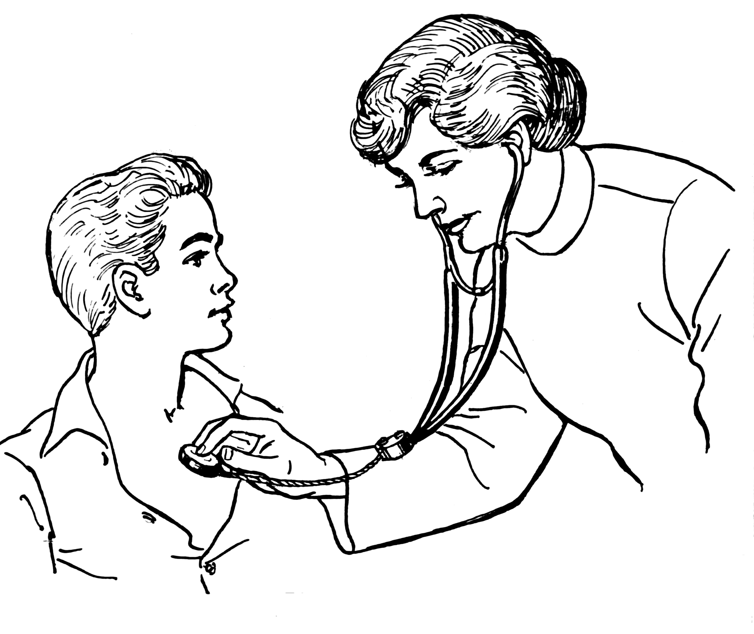 Line art drawing of a stethoscope